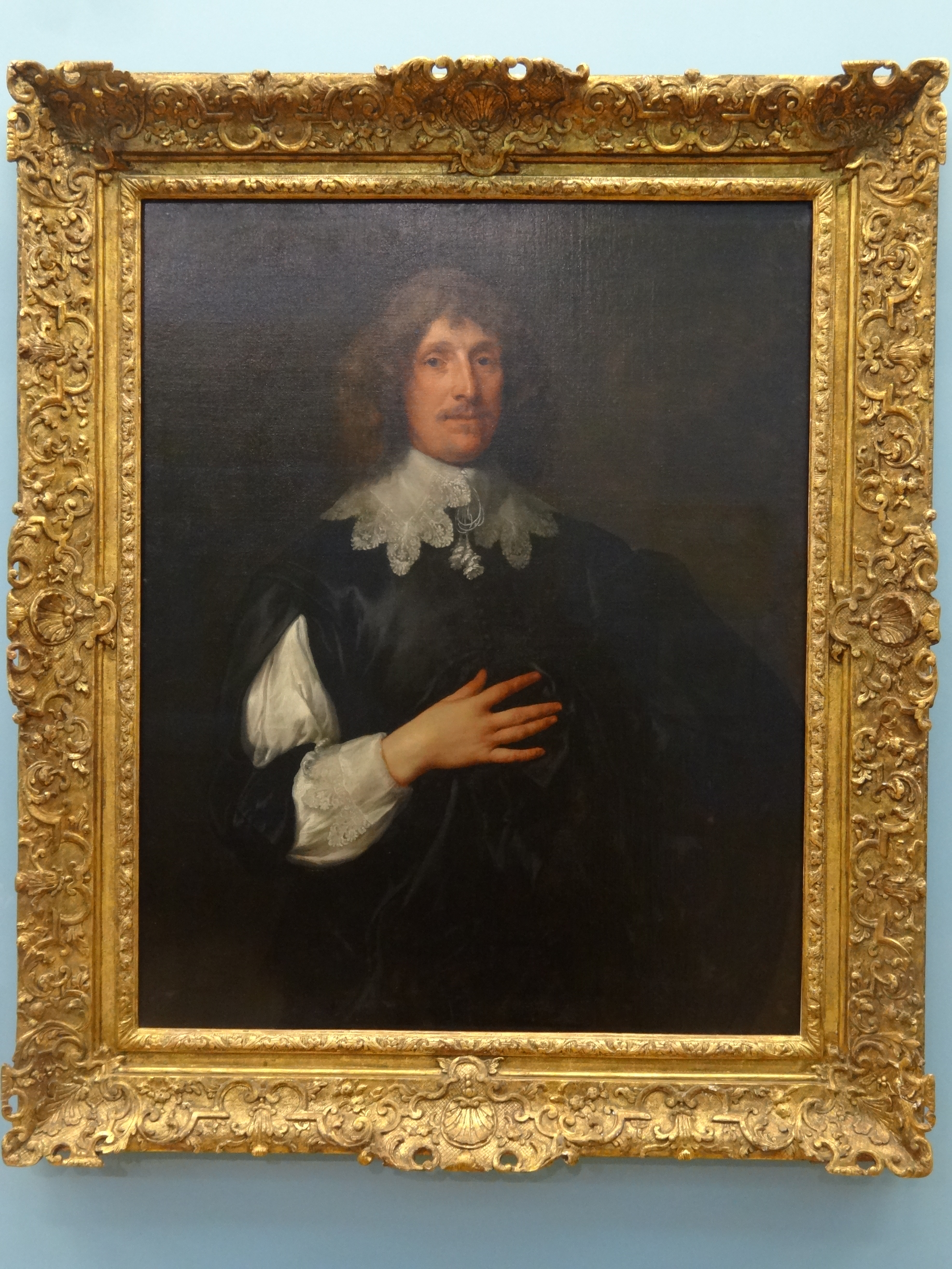 Basil Dixwell by Anthony Van Dyck, Beaney Institute